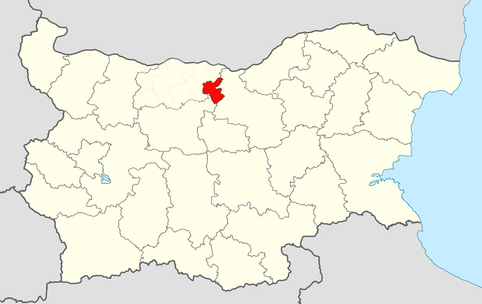 Location map of Levski Municipality within Pleven Province, Bulgaria. Equirectangular projection, N/S stretching 130 %. Geographic limits of the map: N: 44.4° N S: 41.1° N W: 22.1° E E: 28.9° E